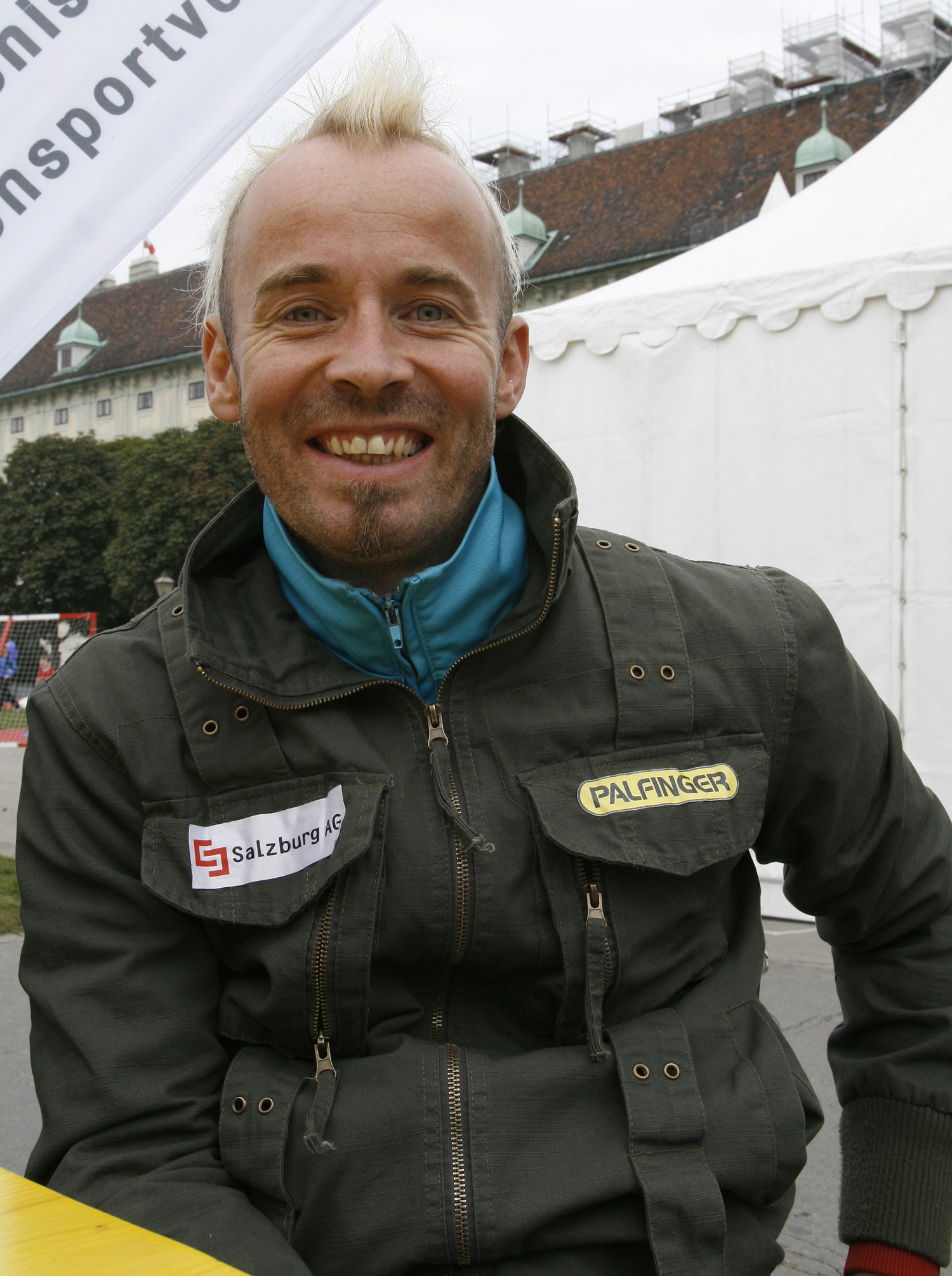 Austrian athlete Thomas Geierspichler ("Day of Sports", Heldenplatz, Vienna).